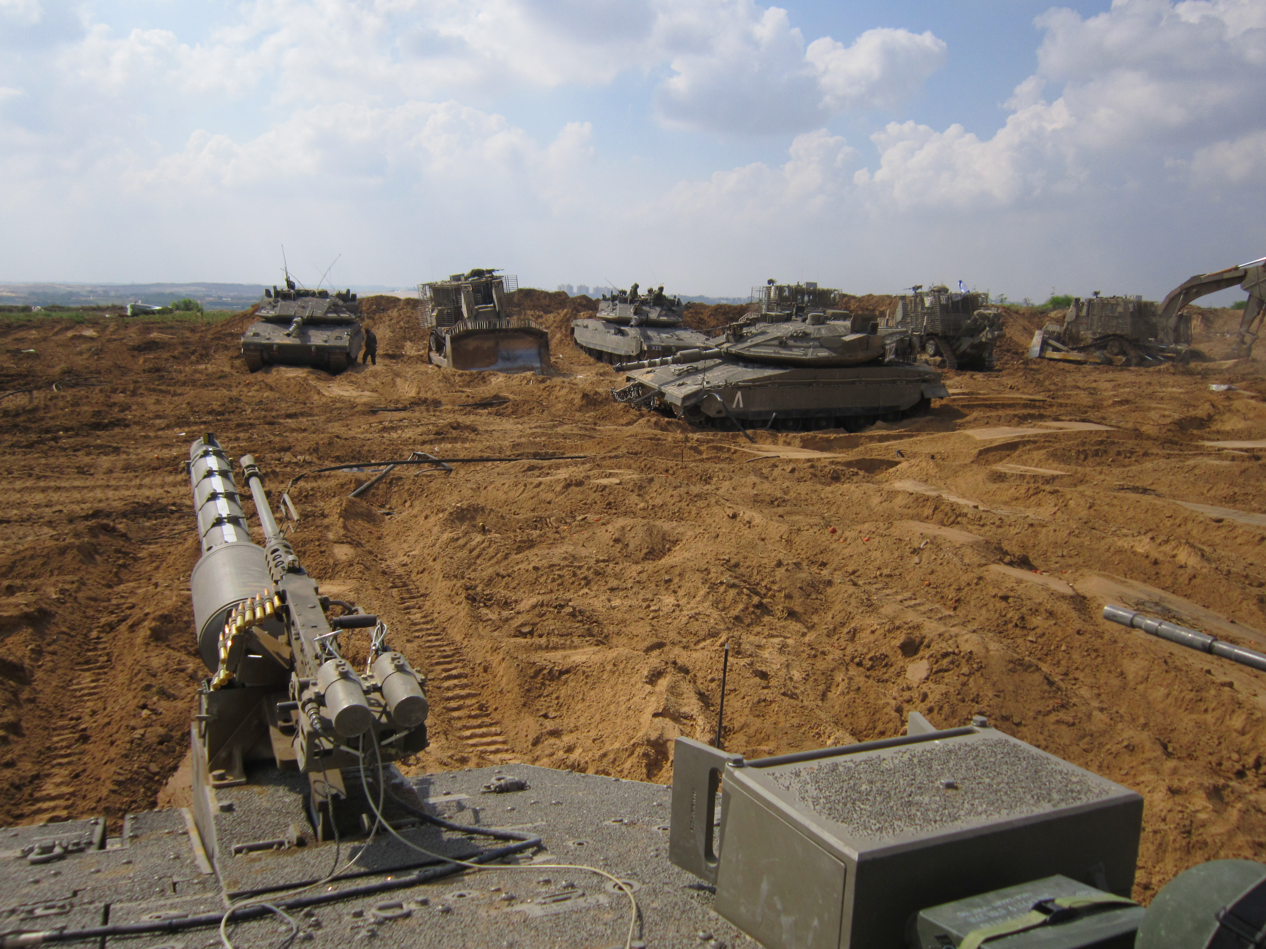 The 401 armored Brigade operates near the Gaza border, 27/7/2014 For more updates: The Israel Defense Forces Facebook The Israel Defense Forces blog Follow us on Twitter